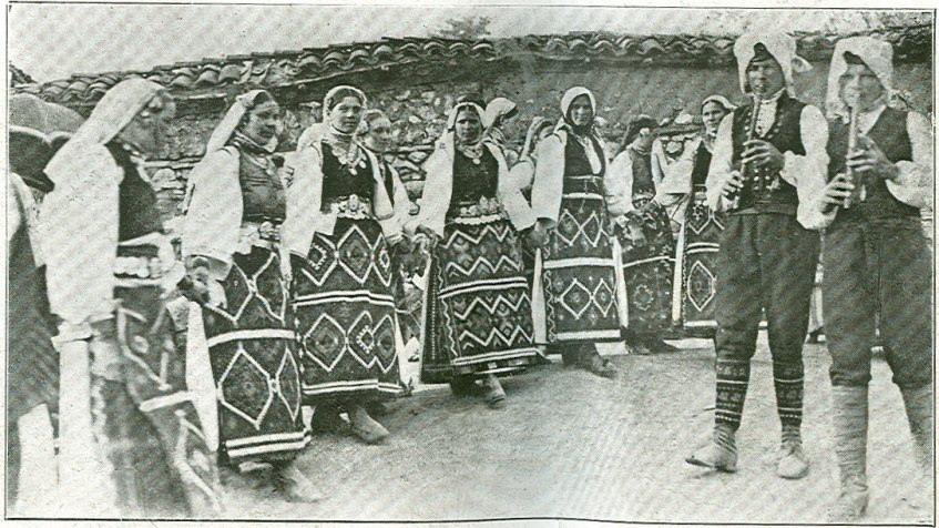 Women's traditional dance in Romanovce, Kumanovo